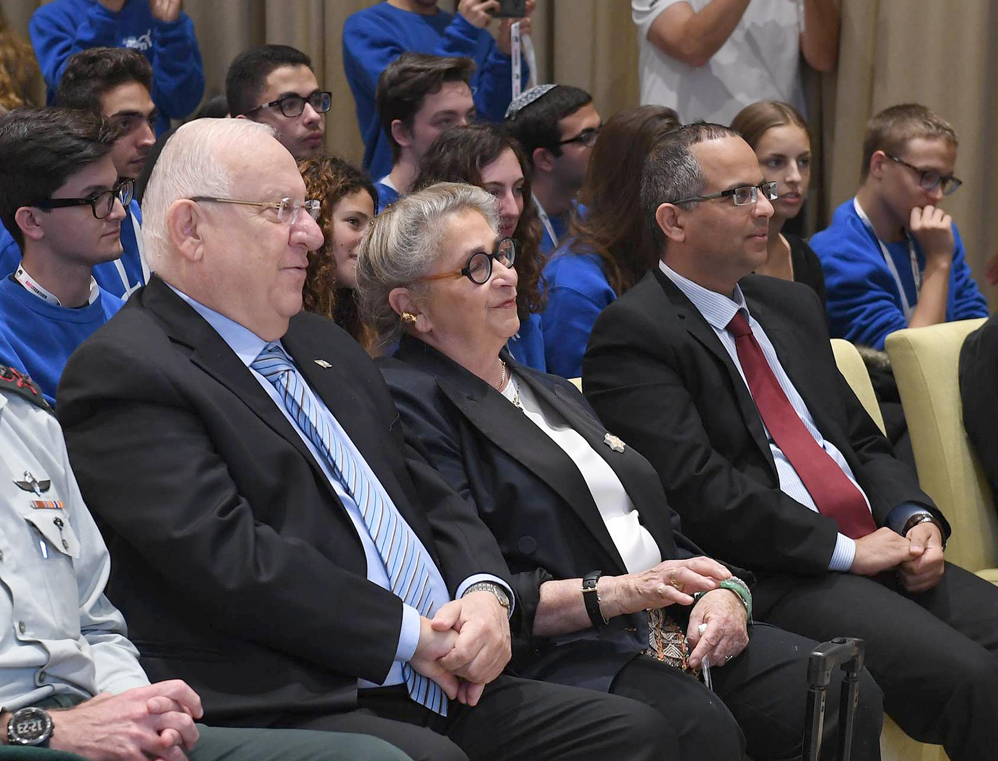 President of the State, Reuven Rivlin, and his wife lighting Hanukkah candles with participants of the Young Scientists Competition in memory of the late deputy Shira Tzur. Thursday, December 14, 2017. Photo Credit: Mark Neyman / GPO.